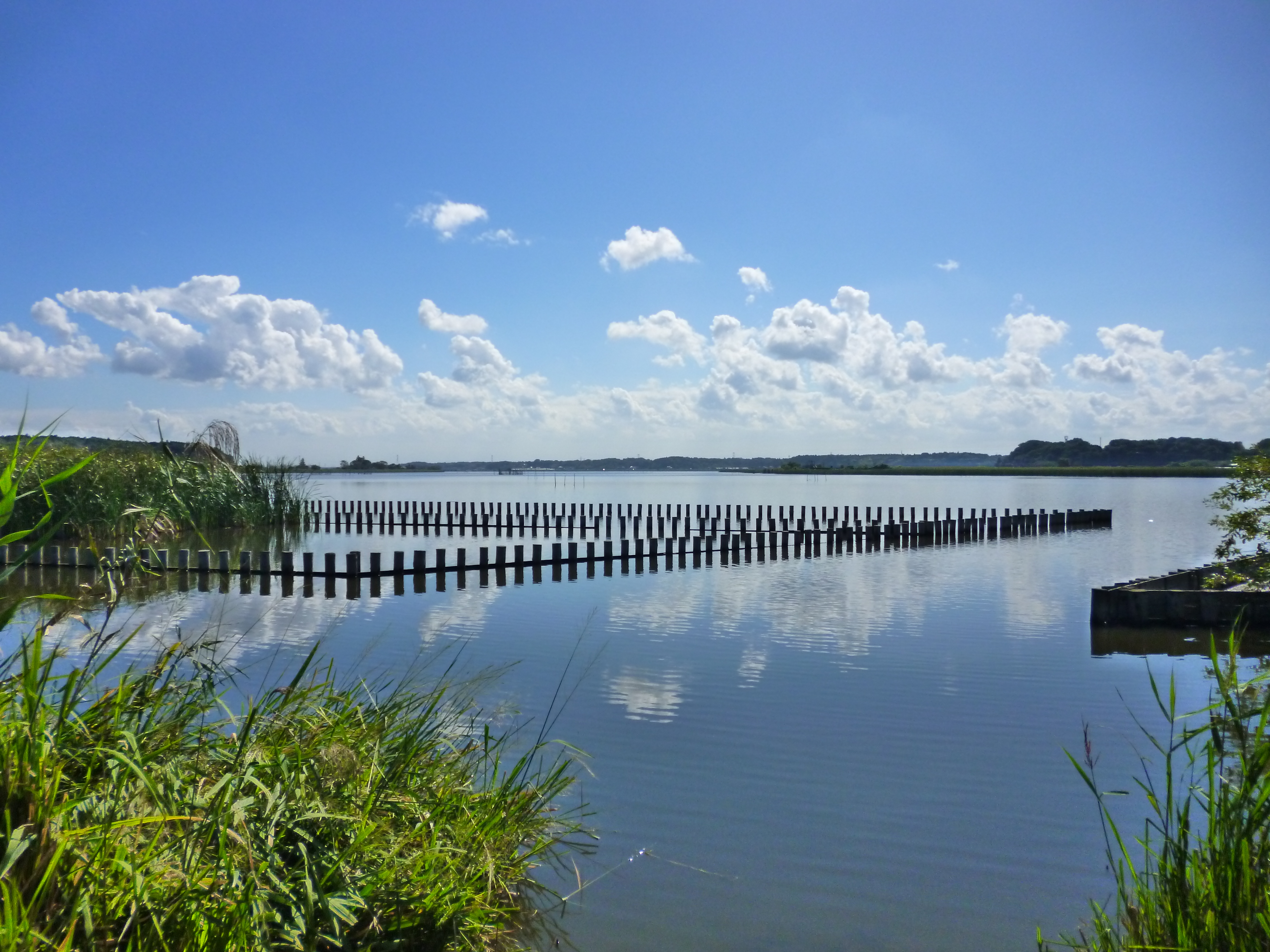 Lake Tega in Chiba Prefecture, Japan. A view from Abiko City.